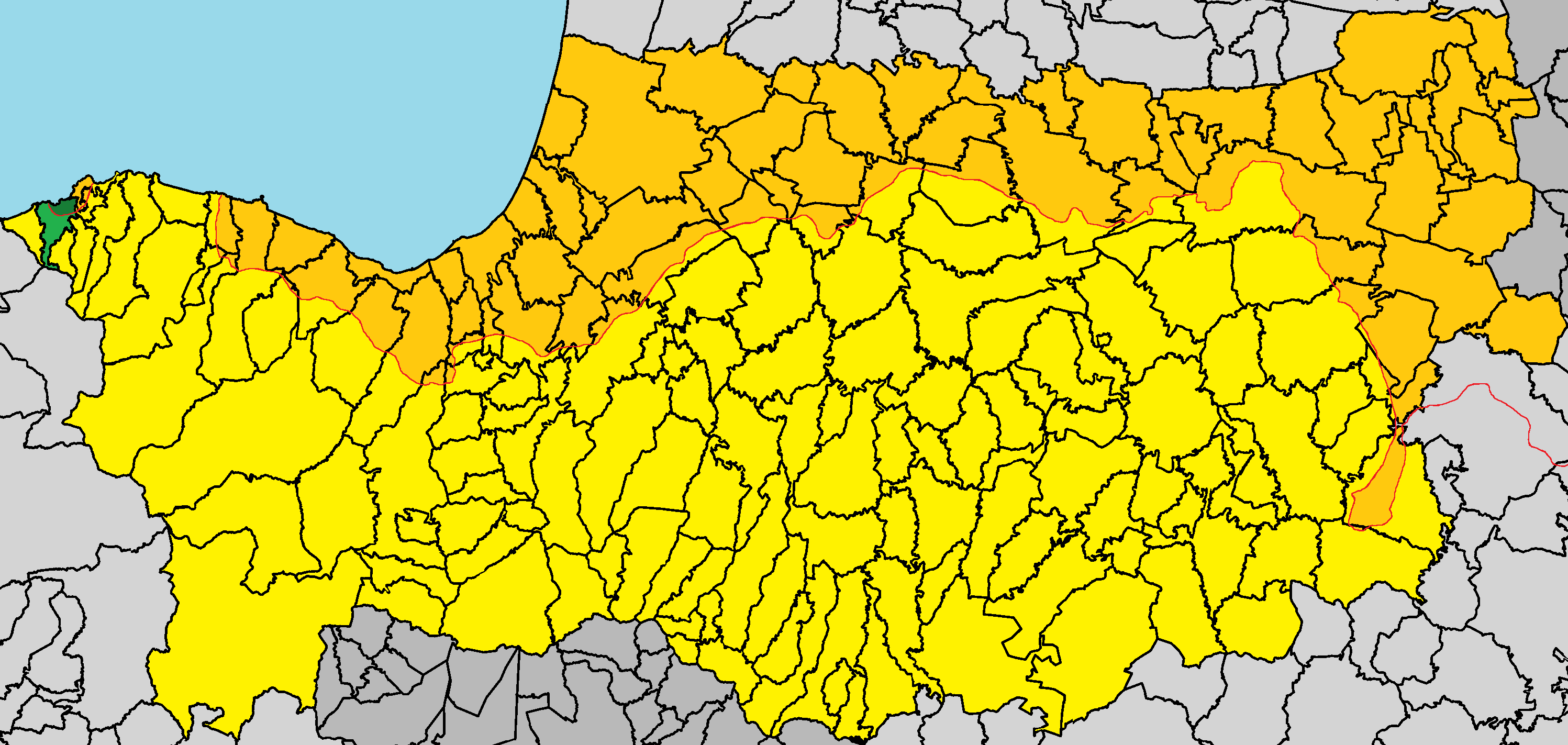 Kokkina in Nicosia District (de jure).